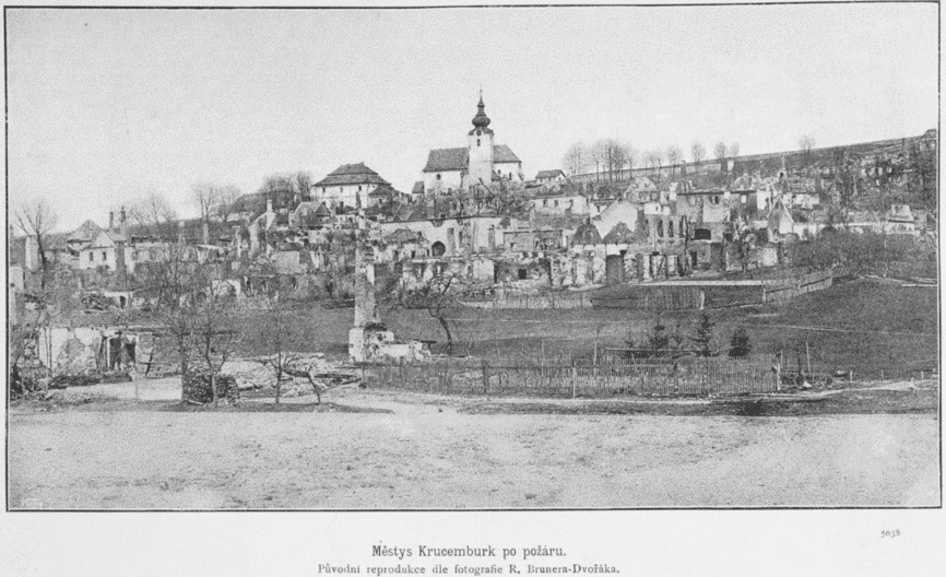 View of Krucemburk (present-day Czech Republic) after a devastating fire of 1893.